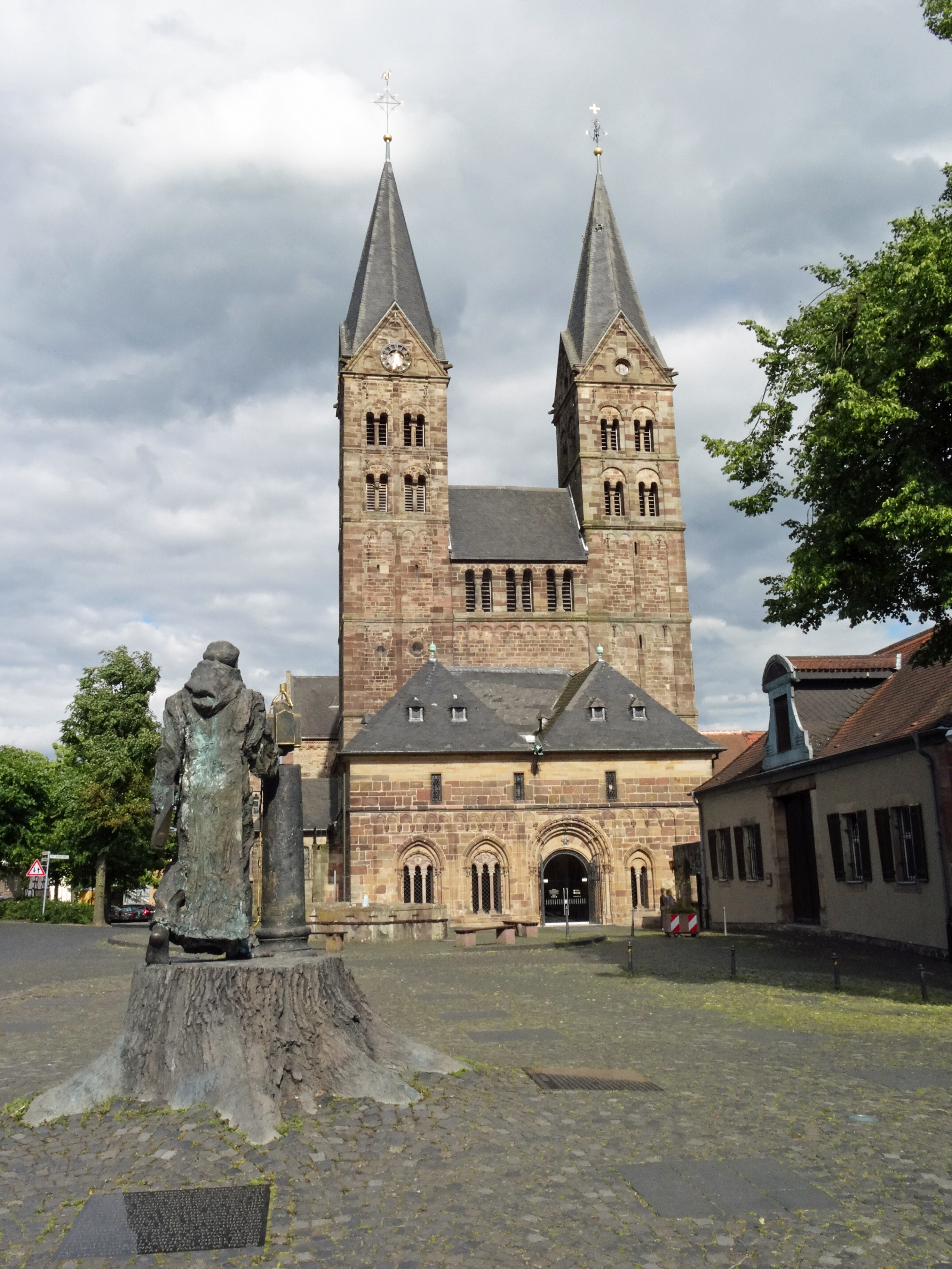 Cathetral of Fritzlar, Germany, with Bonifatius memorial in foreground